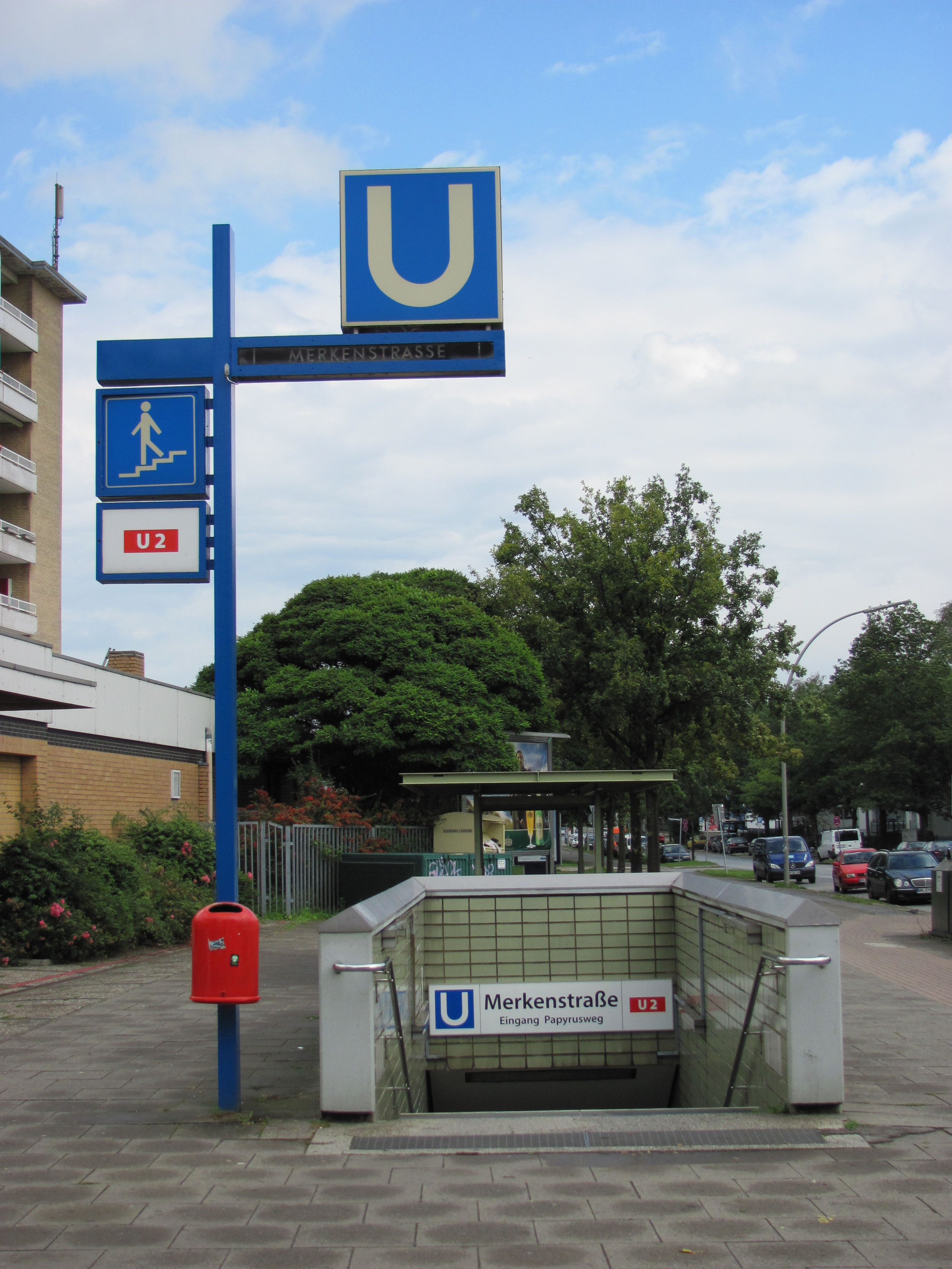 U-Bahn station Merkenstraße in Hamburg, Germany